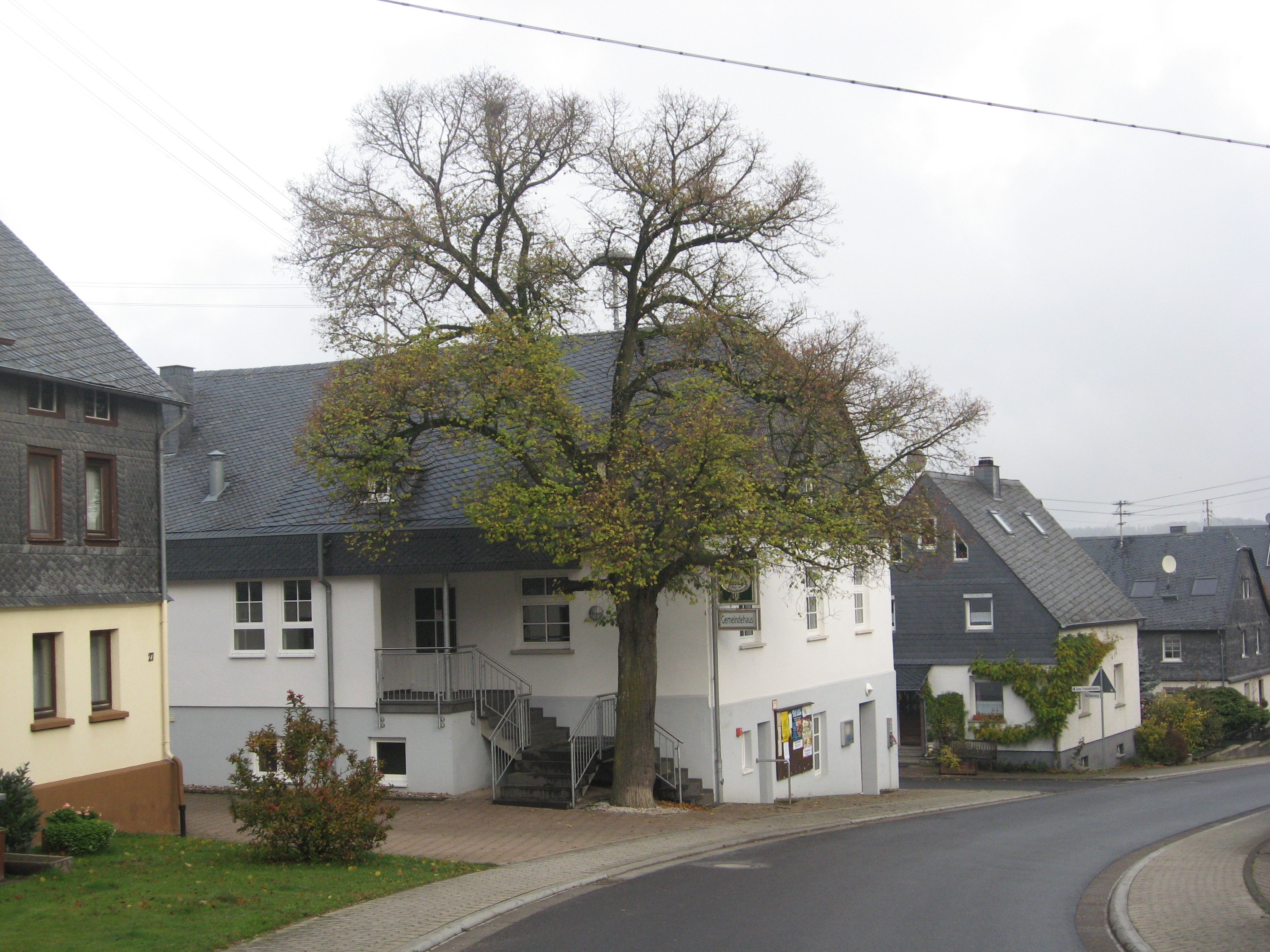 Village Raversbeuren in the Hunsrück landscape, Germany.